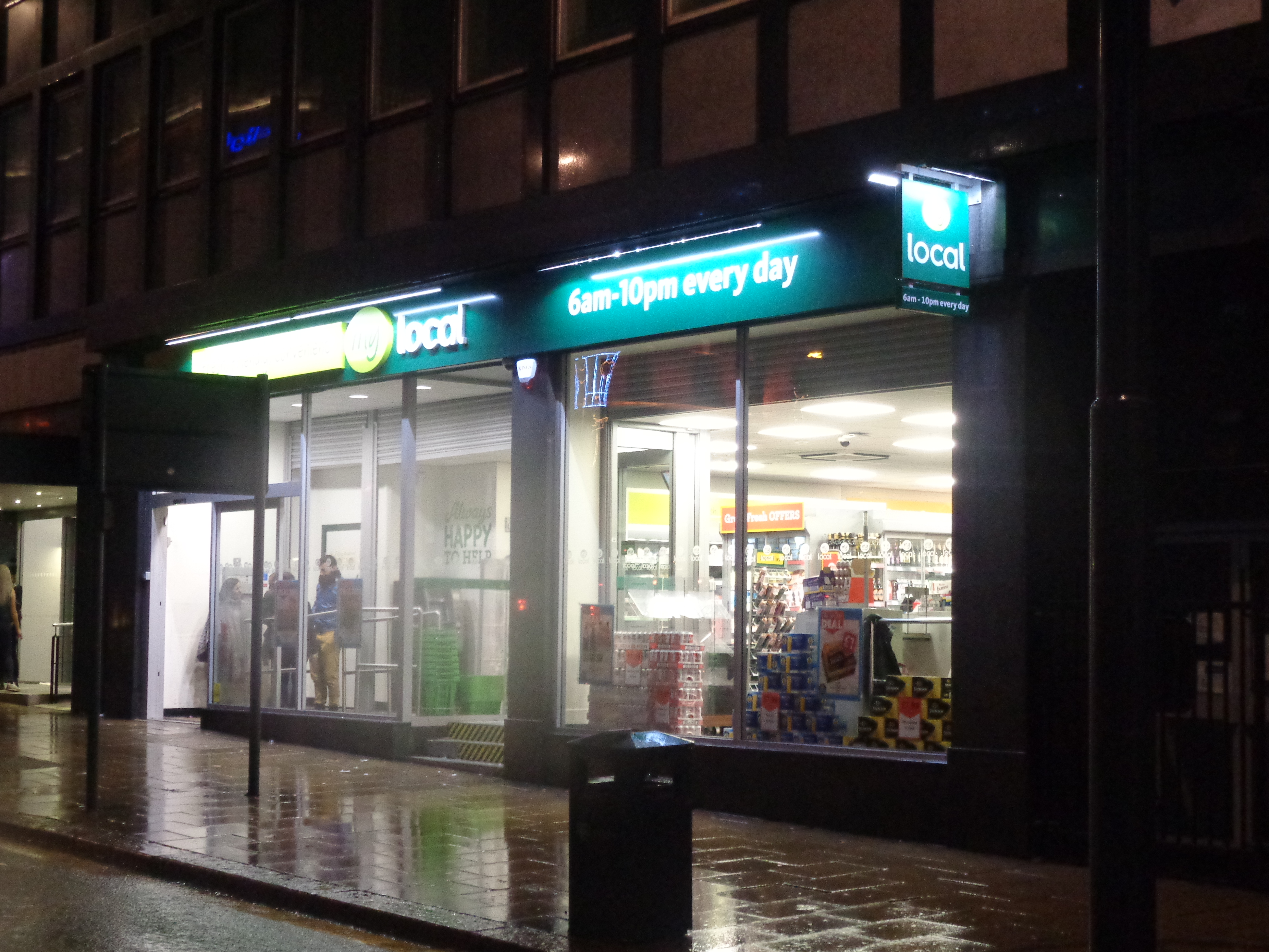 My Local, the Headrow, Leeds, West Yorkshire. This was Morrisons Local until the ailing company sold it's 'local branches'. Taken on the evening of Saturday the 14th of November 2015.